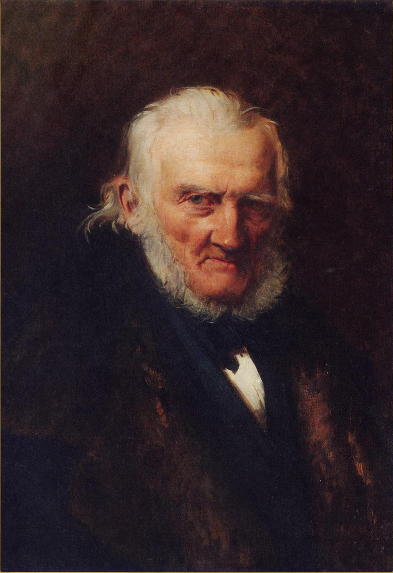 August Mattias Hagen